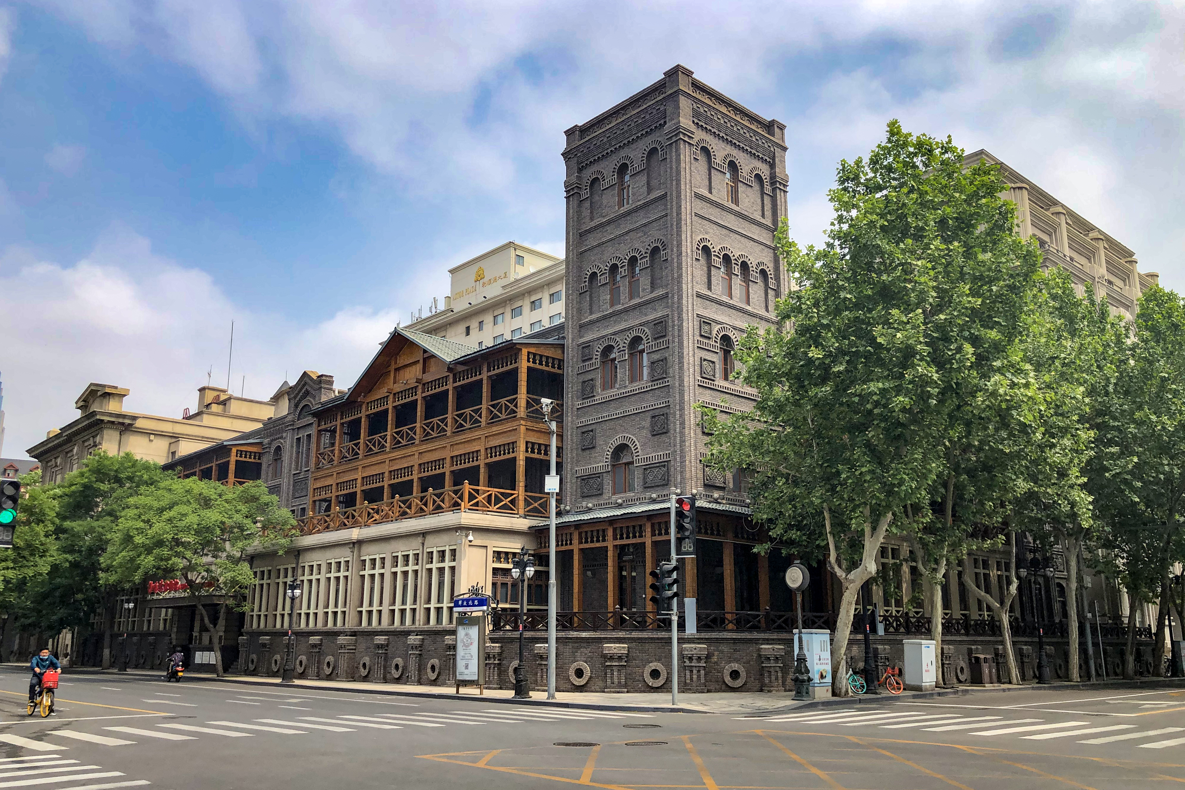 So this is the old wing - once the most luxurious in Asia.